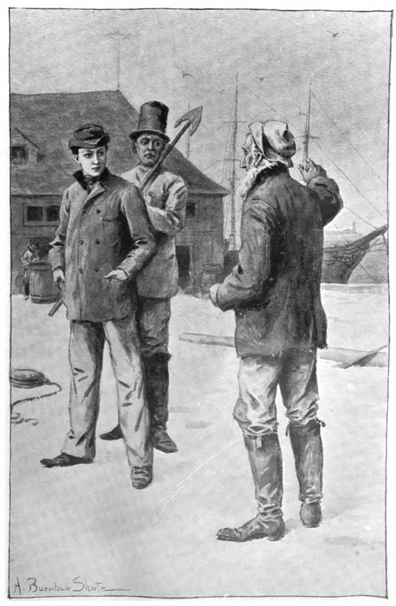 Illustration from Moby-Dick - Ishmael and Queequeg are directed to the Pequod.